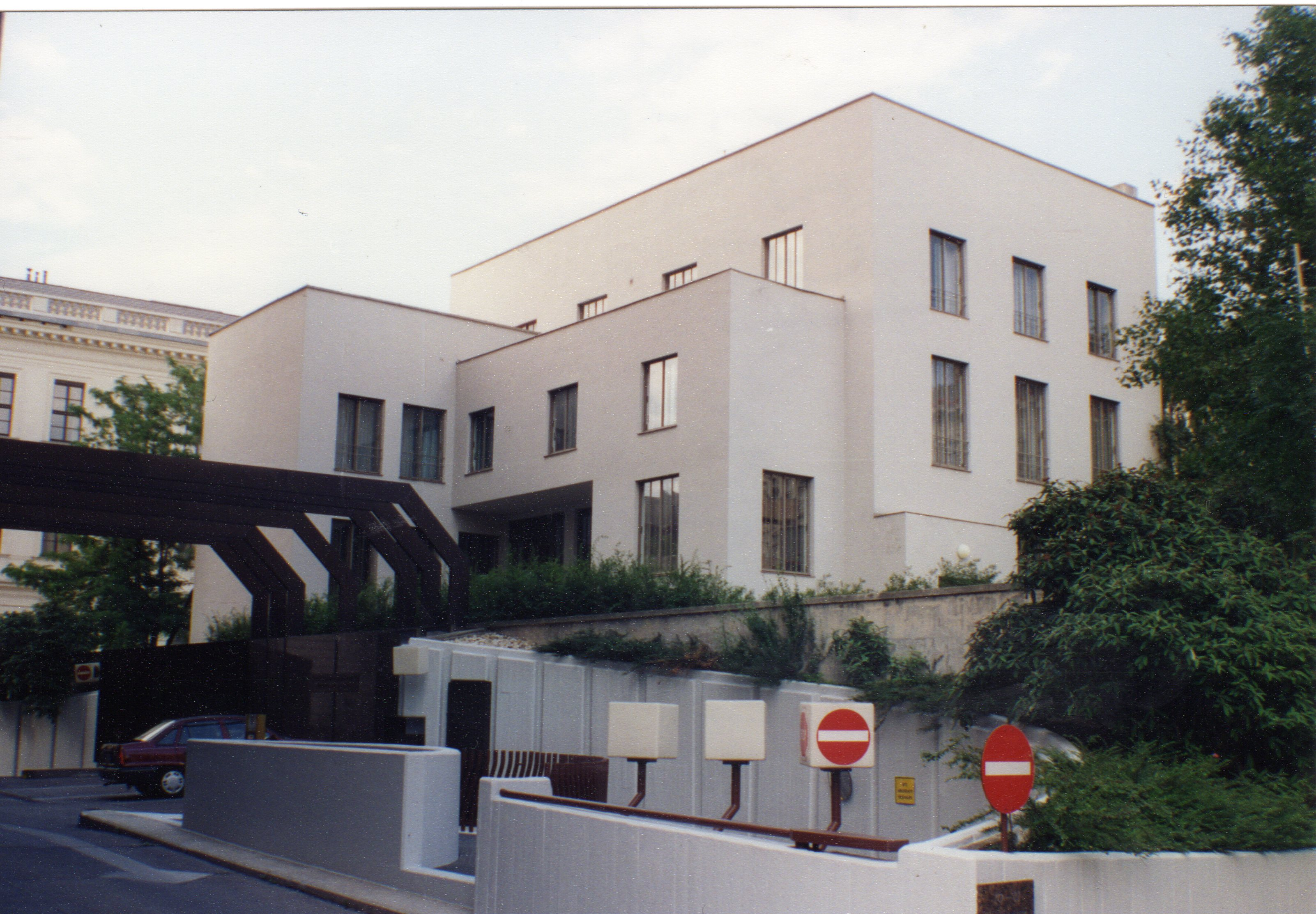 House of philosopher Wittgenstein, Vienna